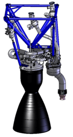 Merlin rocket engine, Space Exploration Technologies, (SpaceX) (See talk page for GFDL permission notes and SpaceX contact information)